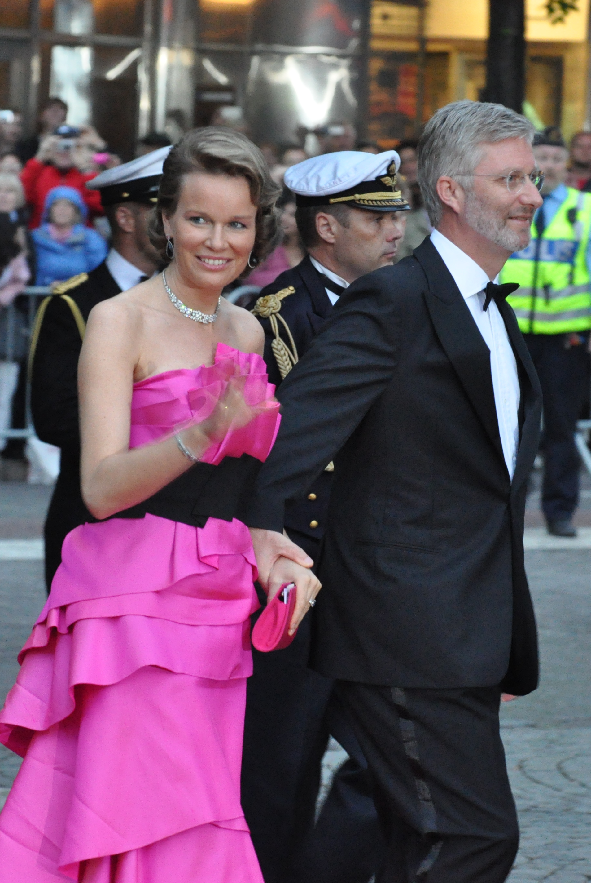 Wedding of Victoria, Crown Princess of Sweden, and Daniel Westling; Arrival of members for the Gouvernment and Swedish and foreign guests of hounour to the Riksdag's Gala Performance at Konserthuset